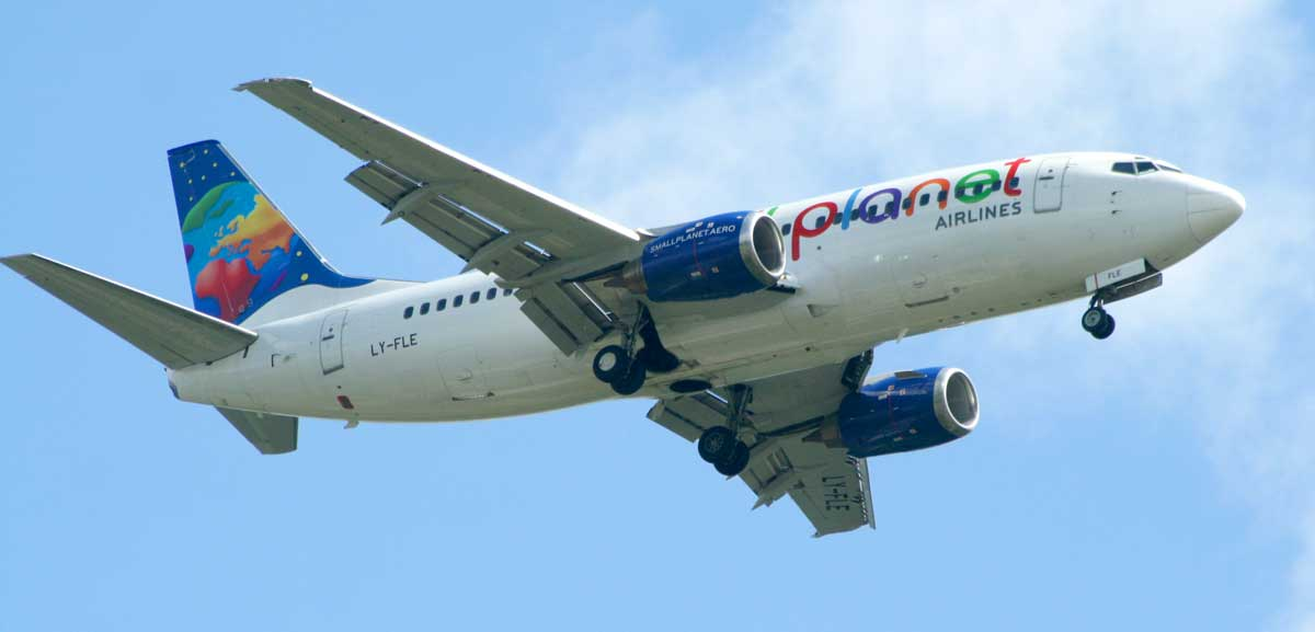 Small Planet Airlines Boeing 737-3L9 landing at Vilnius airport (VNO) Information: ModeS: 503C6D Reg: LY-FLE Typecode: B733 Type: Boeing 737-3L9 Serial number: 27061 Airline: Small Planet Airlines